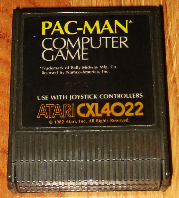 Cartridge with Pac-man, computer game for Atari 8 bit computers. Model CXL4022. 1982. Photo by the uploader.